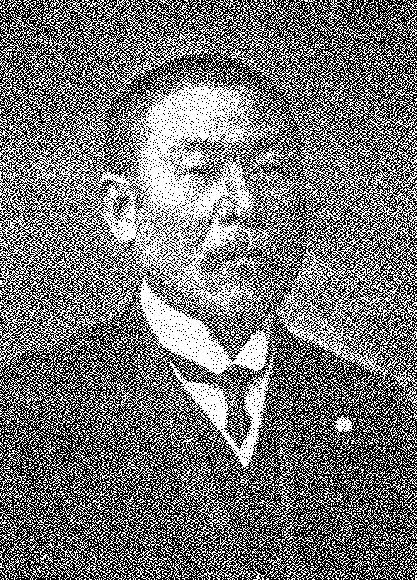 Chiyomatsu_Ishikawa (1860 - 1935) was a Japanese zoologist.